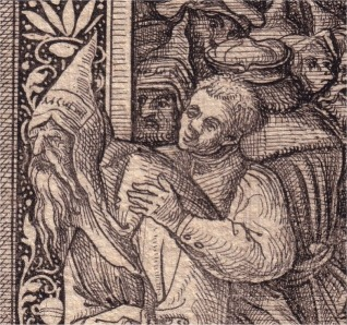 Detail - Etching “Altar tabernacle with the adulterous woman “ from Daniel Hopfer